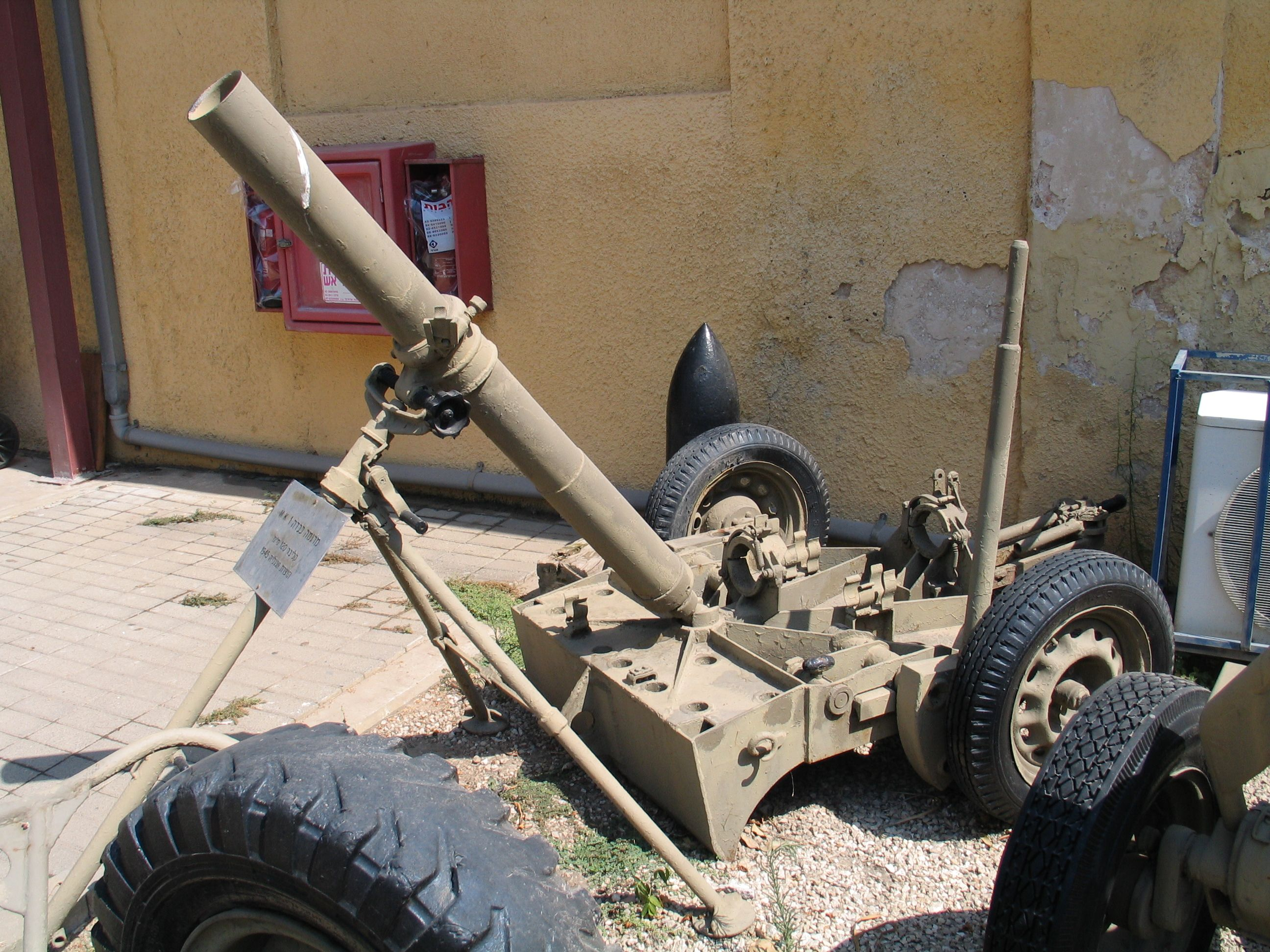 Mortar labeled as "British 120 mm mortar produced in 1945" in Batey ha-Osef museum, Tel Aviv, Israel. May be a 107 mm (?) Ordnance ML 4.2 inch Mortar.